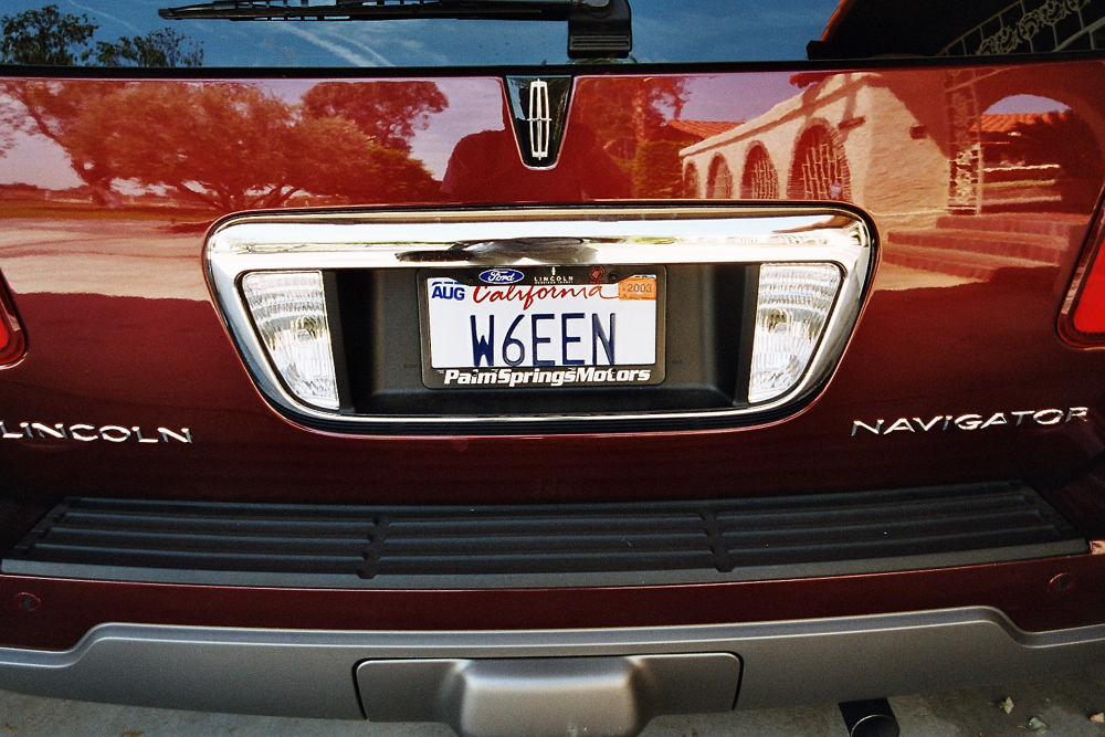 Amateur Radio call sign on the vehicle licence plate.